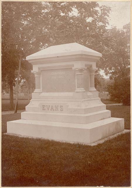 Grave marker of former Colorado governor John Evans in Denver's Riverside Cemetery